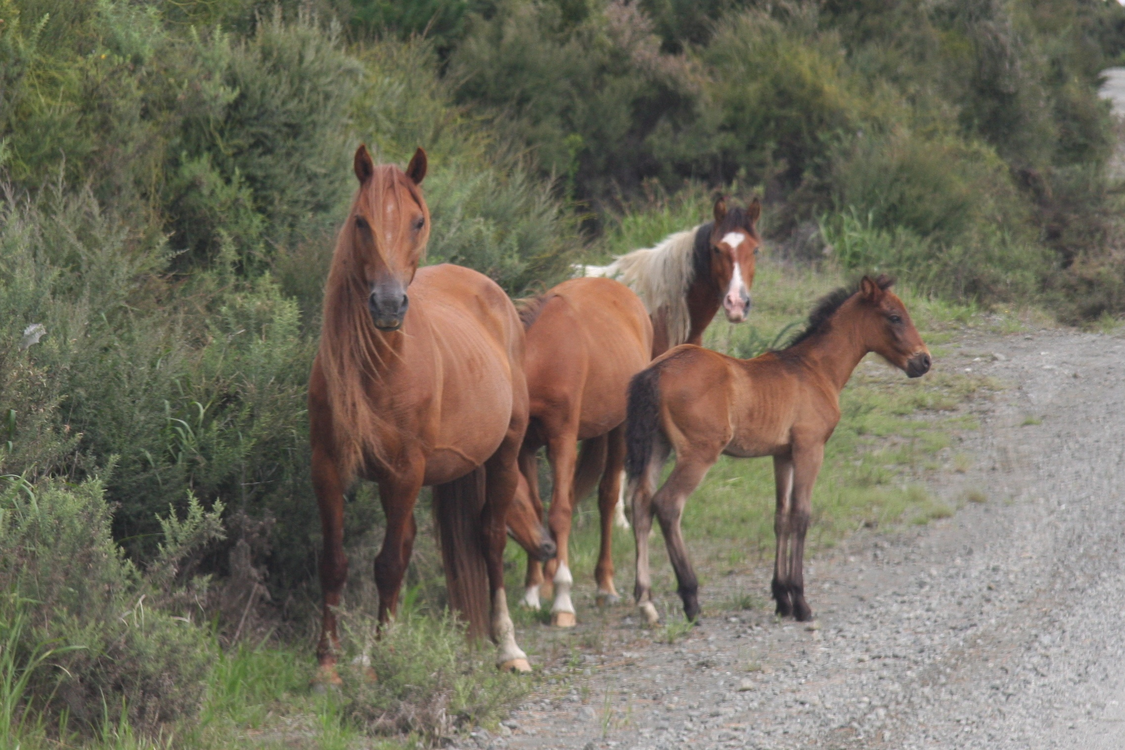 Wild horses at Spirits Bay, North, NewZealand